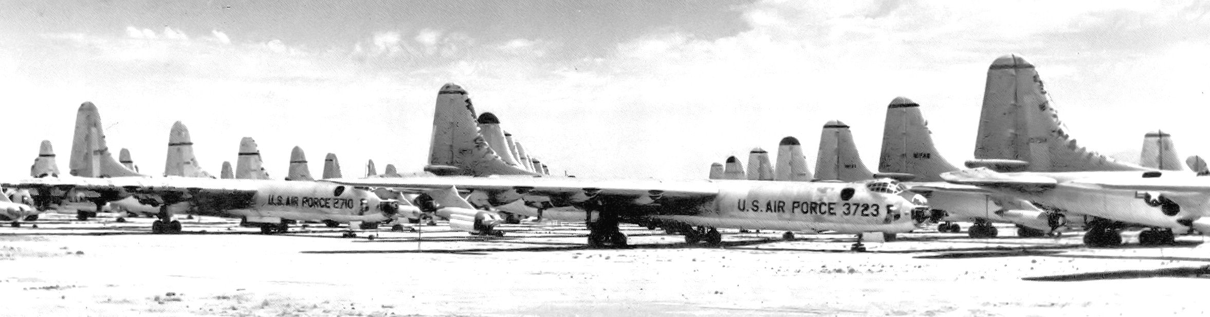 Convair B-36s at AMARC 1958 awaiting scrapping.